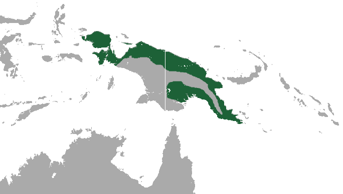 Lowland Ringtail Possum (Pseudochirulus canescens) range